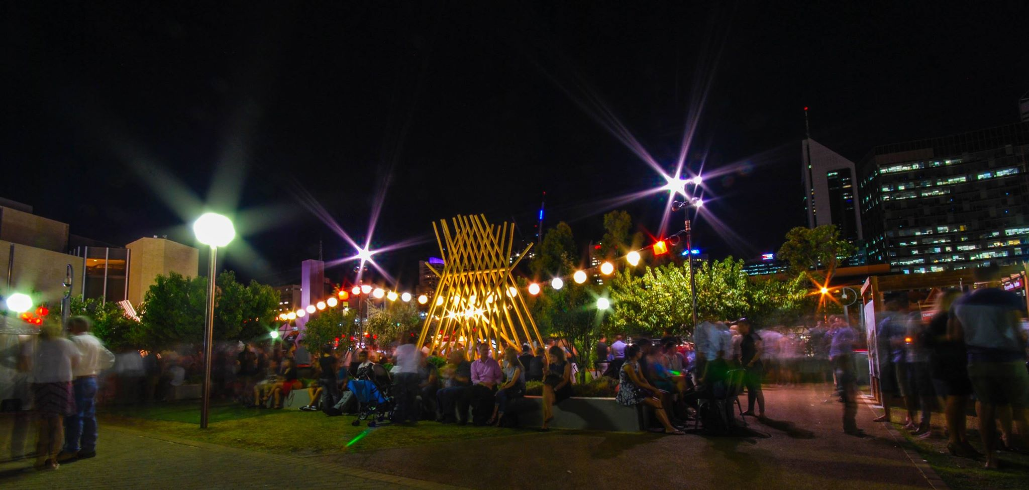 The Noodle Night Markets in March at the Perth Cultural Centre